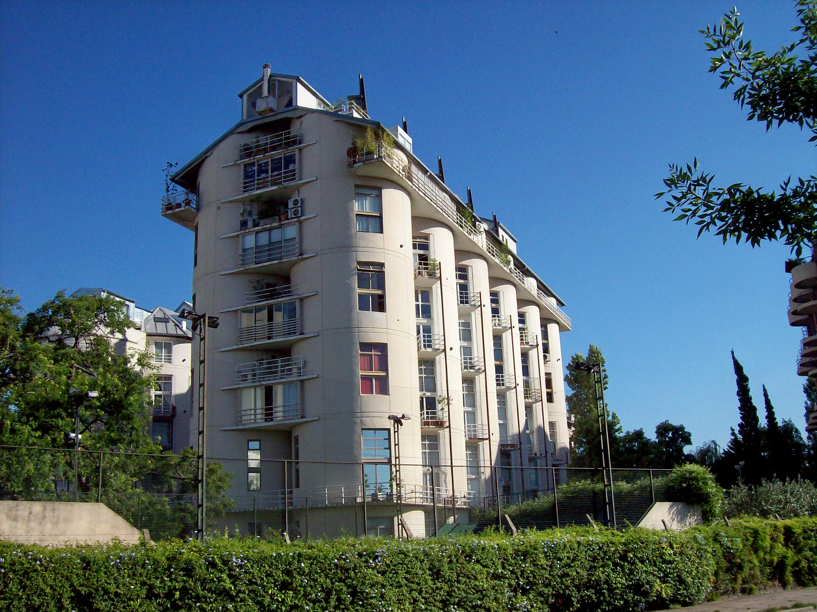 The Silos de Dorrego, a residential complex developed in 1997 from the former Buenos Aires grain silos (1920). Colegiales, Buenos Aires.